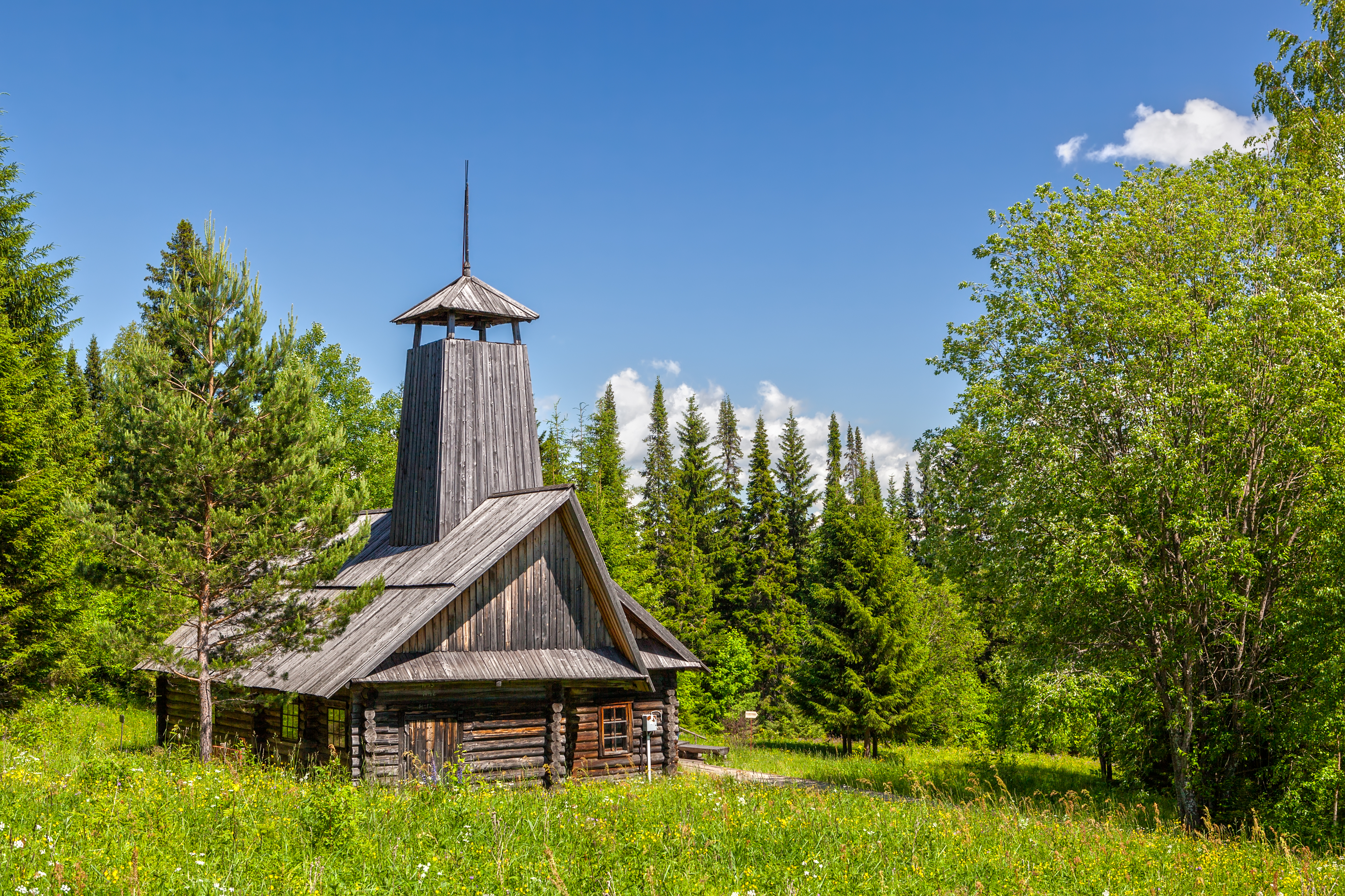 Wooden Fire depot from Skobelevka village, Architectural-ethnographic museum "Khokhlovka", Perm district, Russian Federation